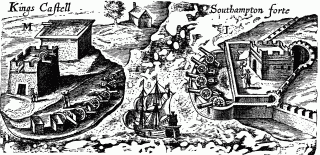 Entrance to Castle Harbour, Bermuda (1614)